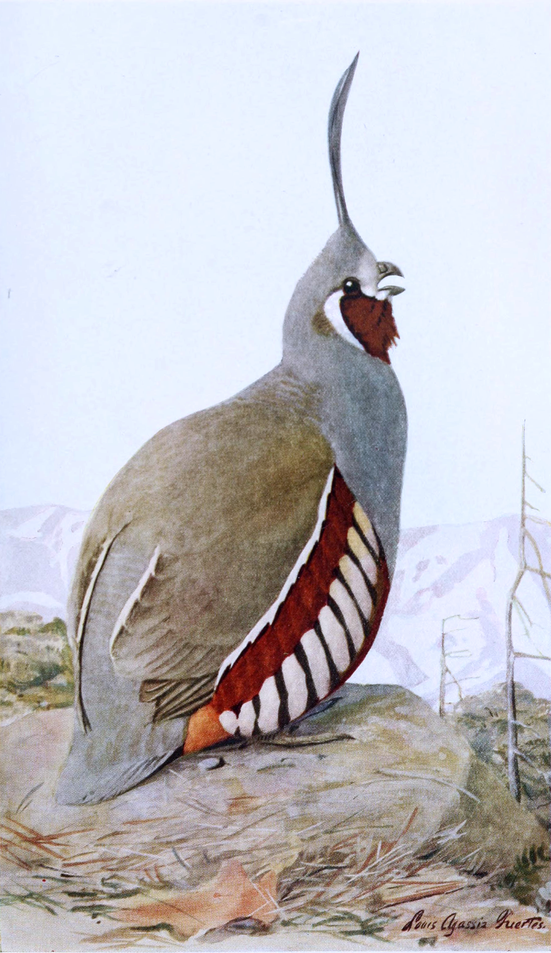 Mountain Quail (male) Oreortyx pictus, offset reproduction of watercolor